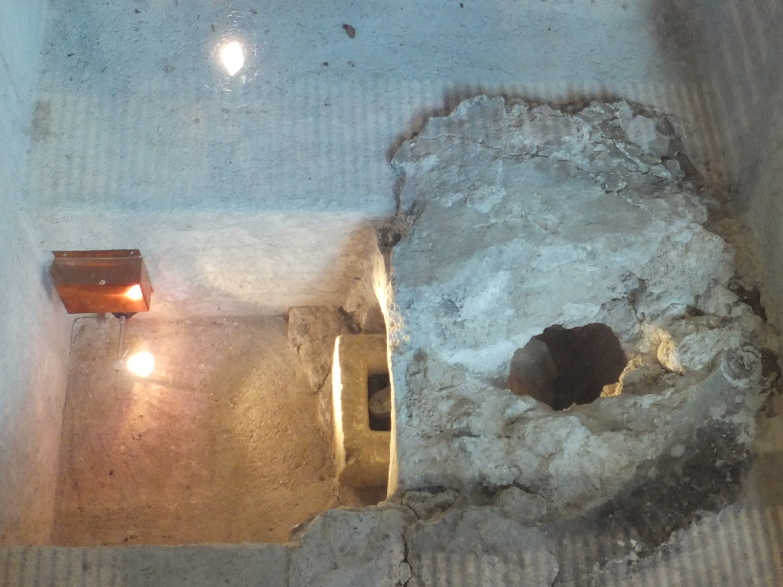 Cembra - Saint Peter church - The place under the floor before the altar, where some relics where stored